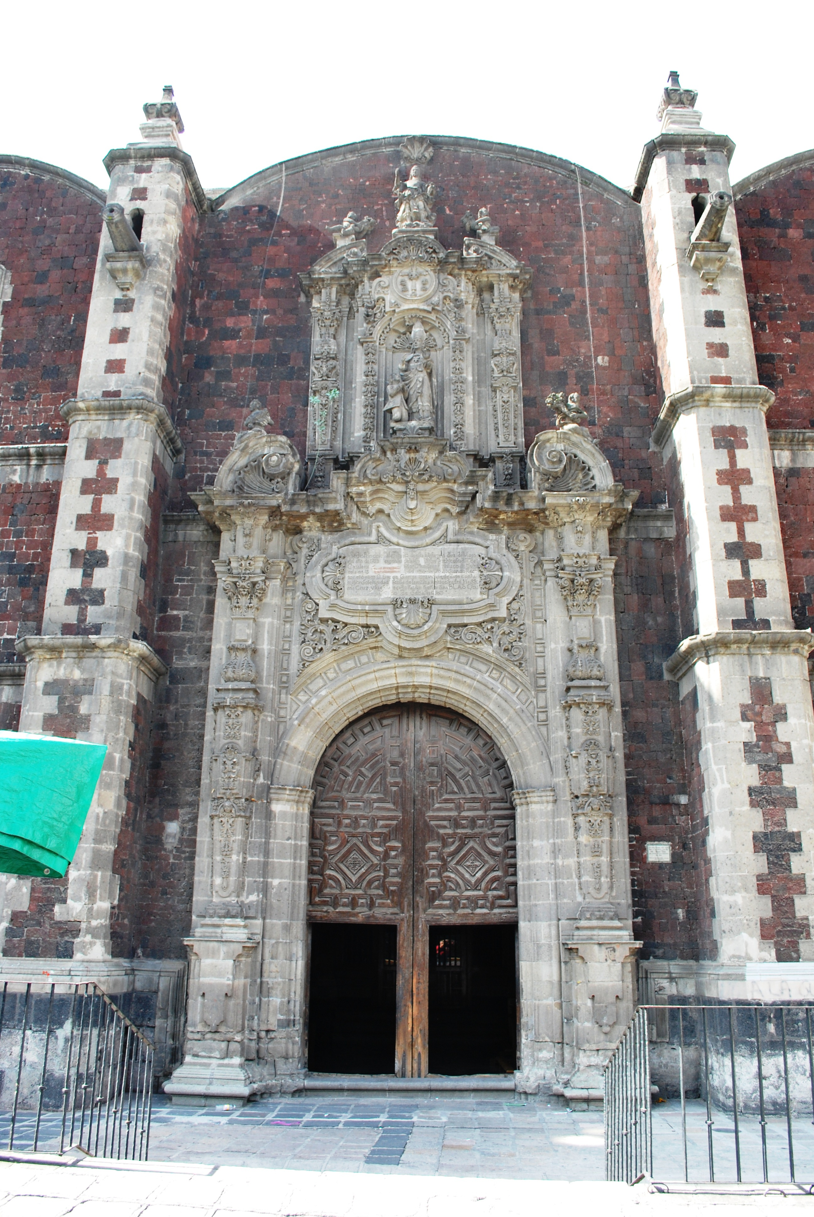 Main portal of the Parish of Santa Vera Cruz located near the Alameda in Mexico City